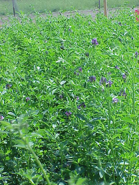 Species: Medicago sativa Family: Fabaceae Image No. 1